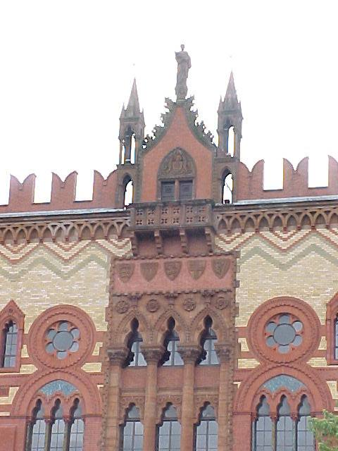 Templeton's carpet factory, Glasgow Green, Glasgow, Scotland (Image by Malula)